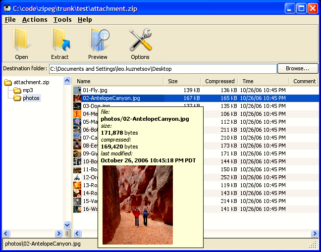 Zipwg 2.9.2 on Windows XP